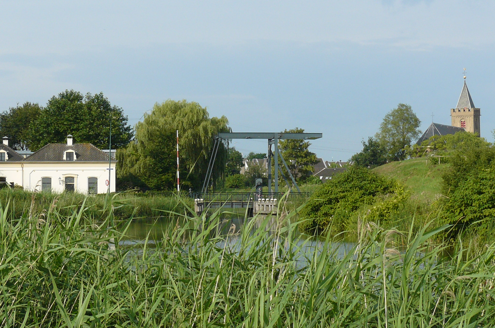 The Naarderpoortbrug gives access to Muiden from Naarden. It crosses the Naardertrekvaart.